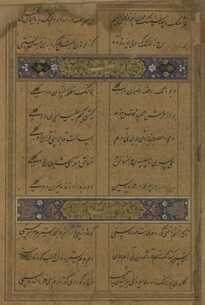 Diwan of Shah Ismail Khatai single page